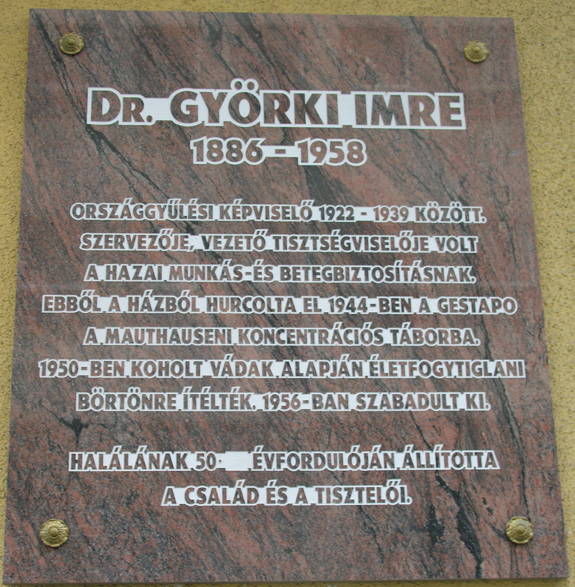 Commemorative plaque of Imre Györki in Budapest District V, Honvéd Street No 16